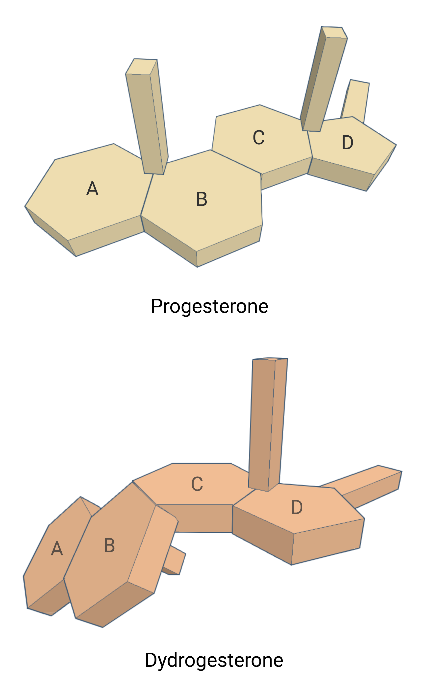 A 3-dimensional comparison of the chemical structures of progesterone and dydrogesterone, showing the retrosteroid nature of dydrogesterone. Made with Autodesk Tinkercad.